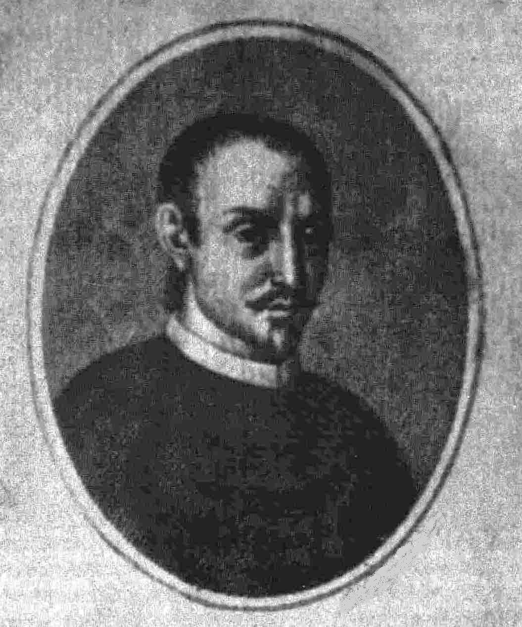 Pietro Carrera (1573-1647), Italian chess player and priest